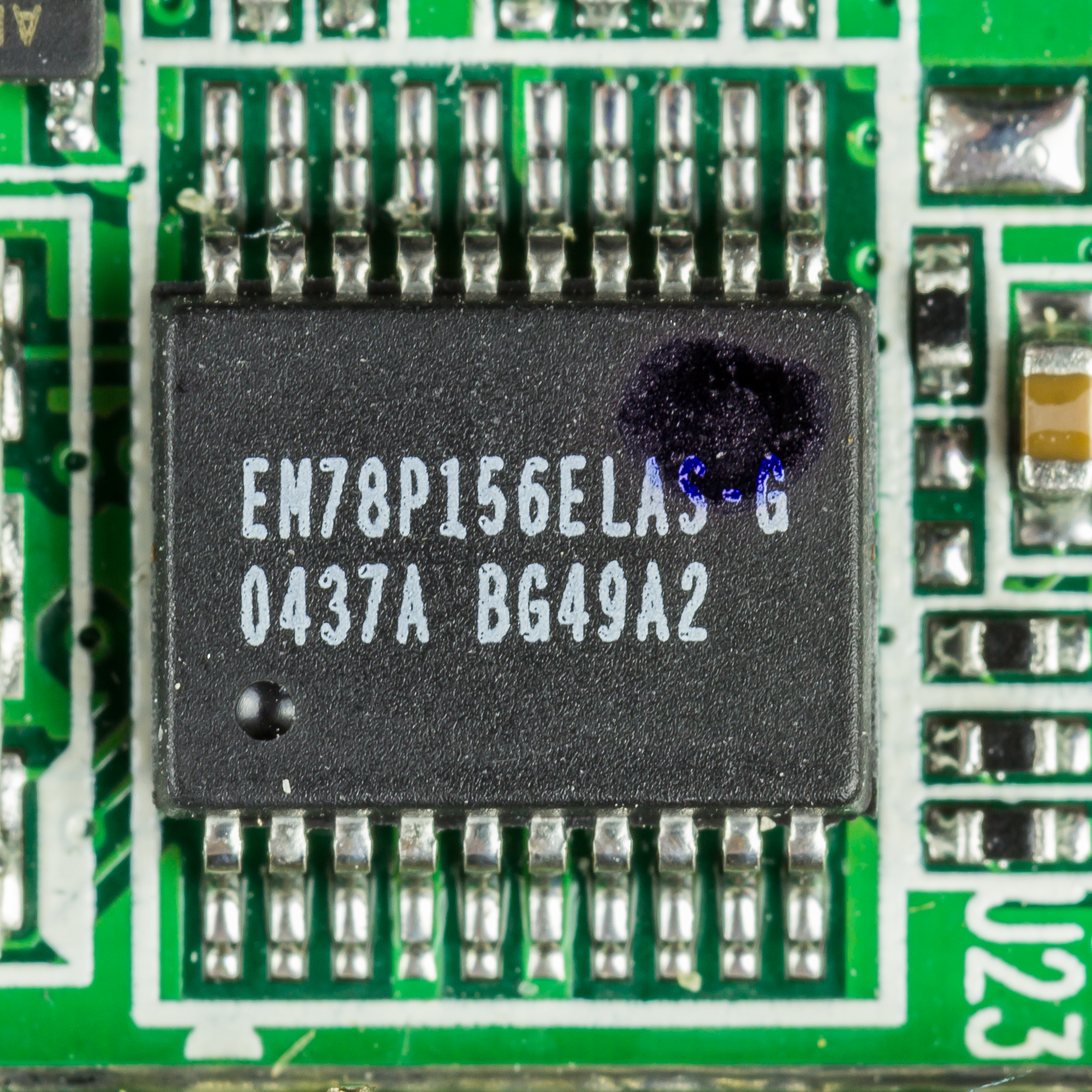 Typhoon MyGuide 3500 mobile - controller - Elan EM78P156ELAS - 8-Bit Micro controller with OTP ROM. Package: 20 pin SSOP